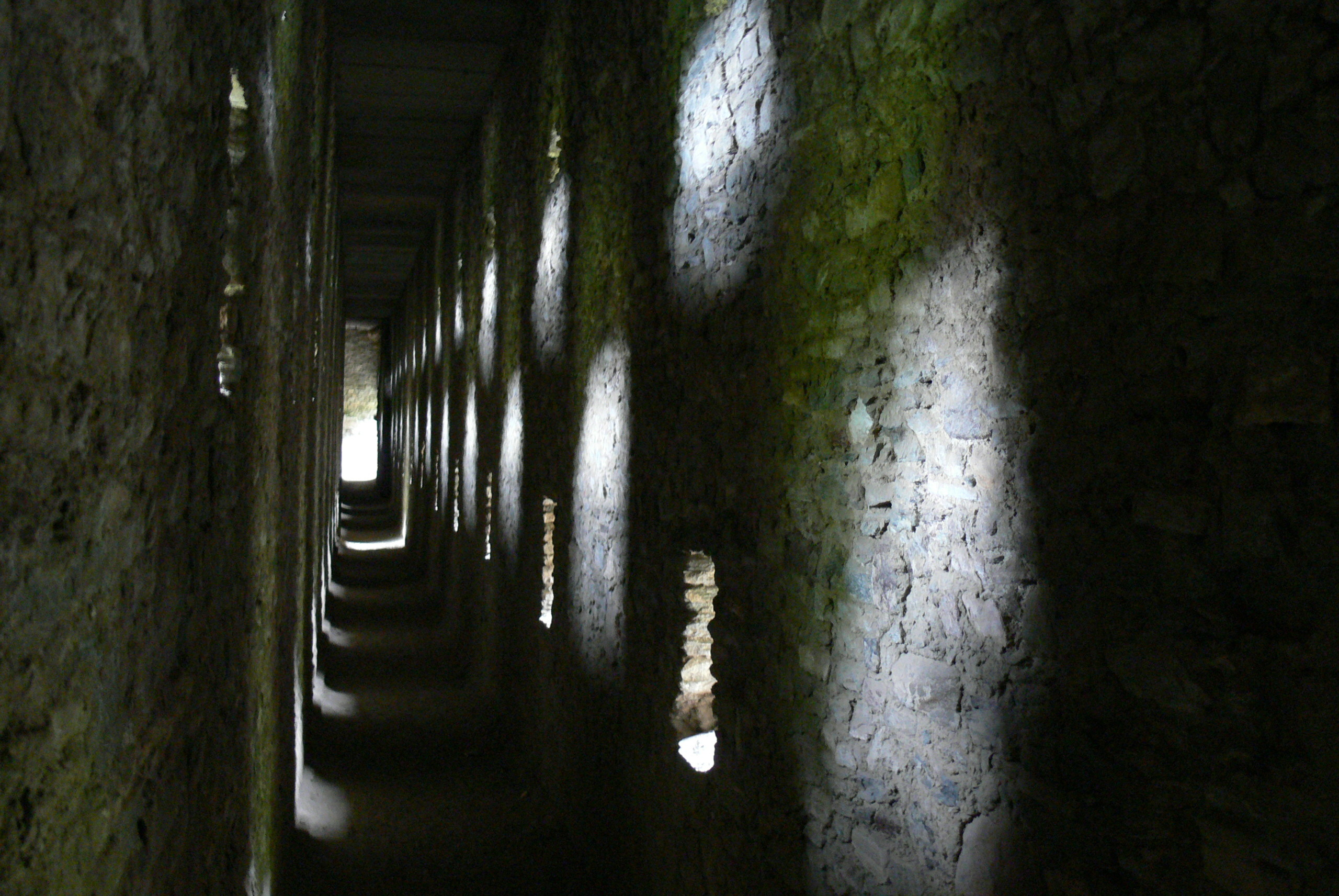 Pondel ( Aosta Valley ). Roman aquaeduct of Pont d'Aël ( 3 BC ): Roofed control floor.